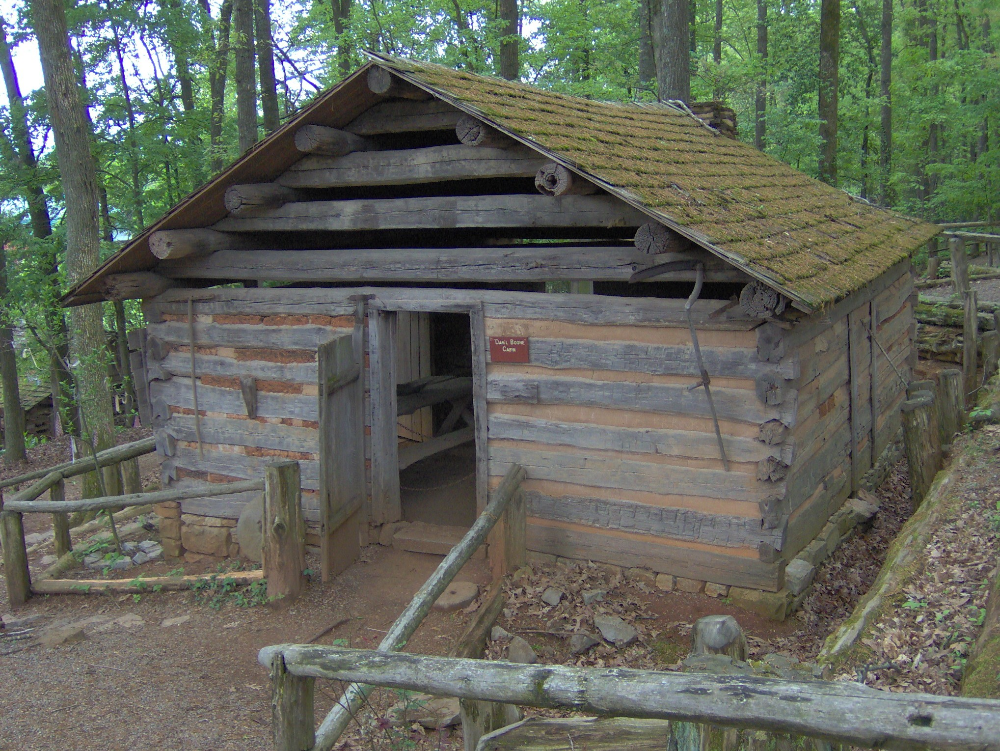 The "Dan'l Boone" Cabin at the Museum of Appalachia in Norris, Tennessee, USA. The cabin was originally located near the Rosedale community in the New River section of Anderson County, Tennessee, and built in the early 19th century. The cabin's current name comes from its use in the 20th Century Fox TV series, Young Dan'l Boone.